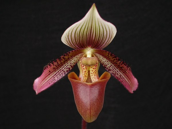 Paphiopedilum